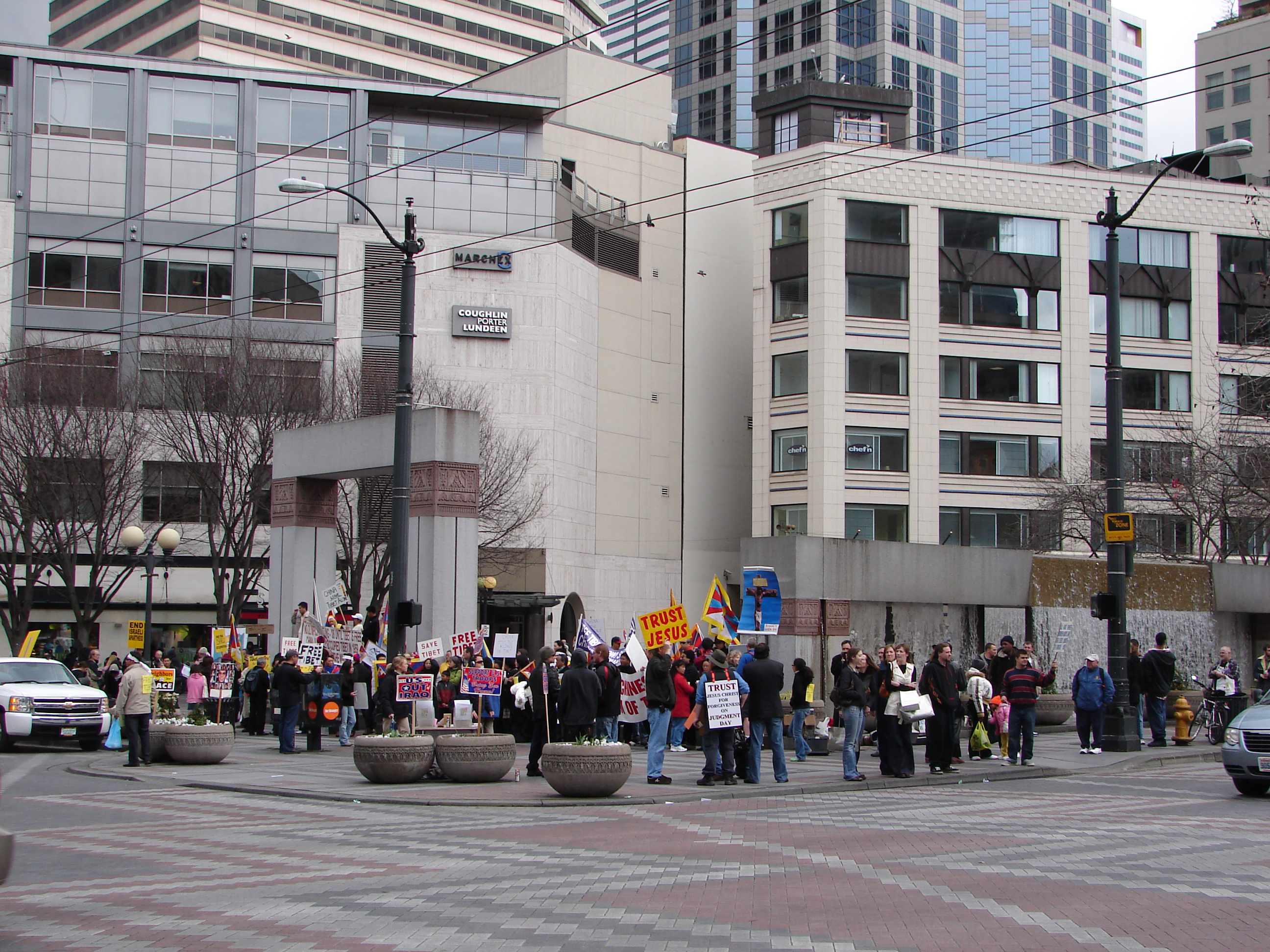 In Seattle, people are protesting China's rule over Tibet.